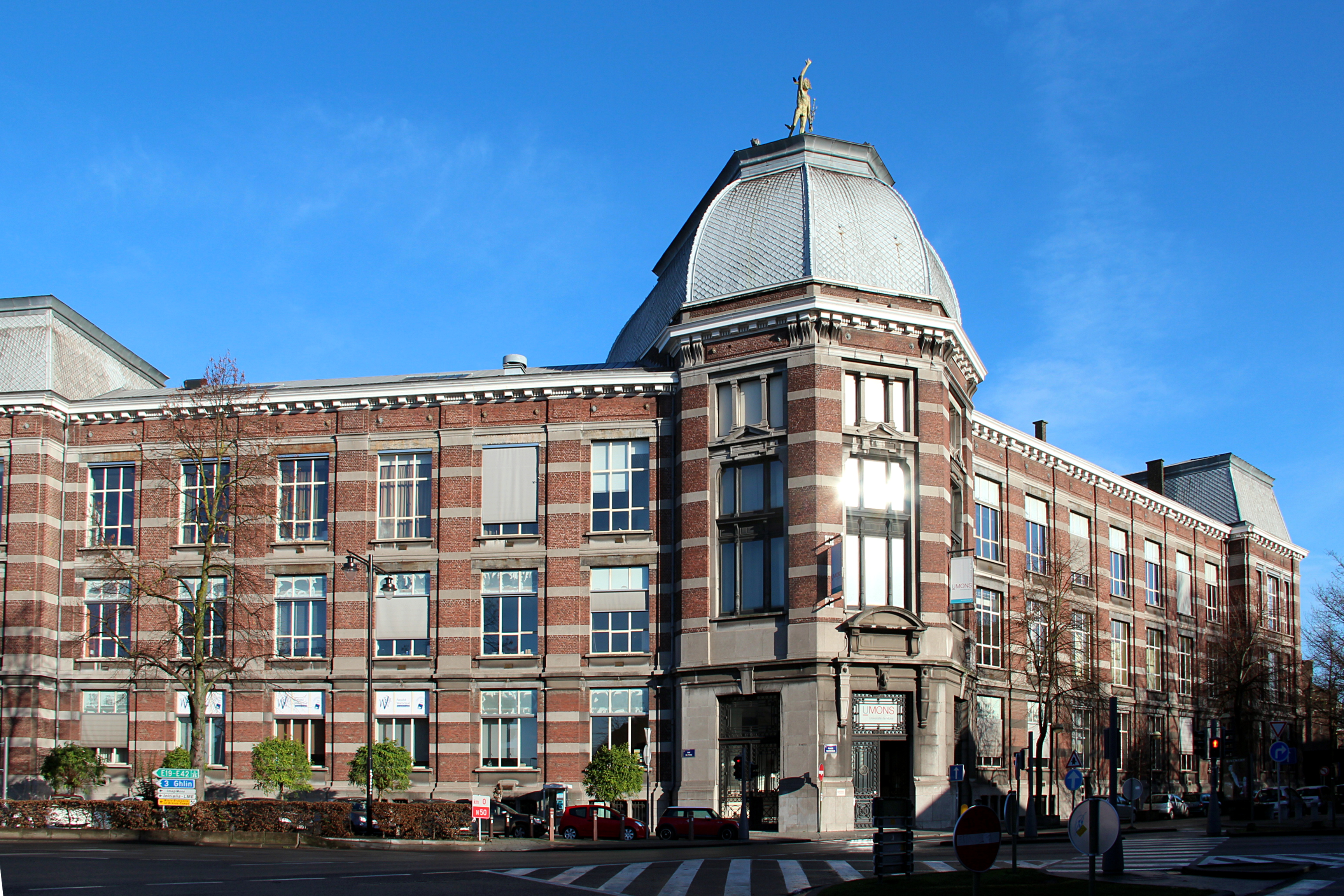 Mons (Belgium), place Warocqué, 17 - Building of the former School of Business Warocqué (in french "École de Commerce de Warocqué") built in 1902 by the architects Burton and Dutrieux, current Warocqué Economics and Management Faculty (in french "Faculté Warocqué d'Économie et de Gestion") part of University of Mons.